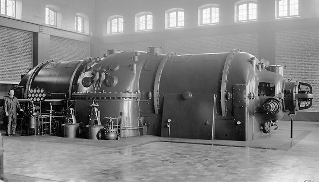 Ljungström (STAL) steam turbine electric generator 50 MW (G5 at Västerås steam power plant). Designed on the principles worked out by Birger and Fredrik Ljungström around 1908.